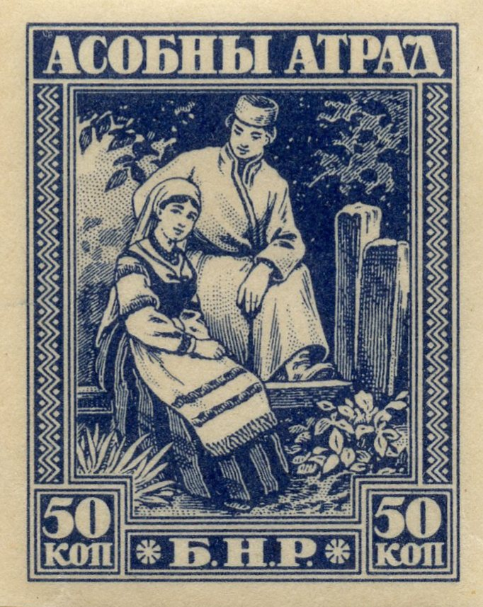 Postage stamp by painter Rihards Zariņš for Asobny Atrad of Bułak-Bałachowicz, Latvia, 1920, 50 kopecks